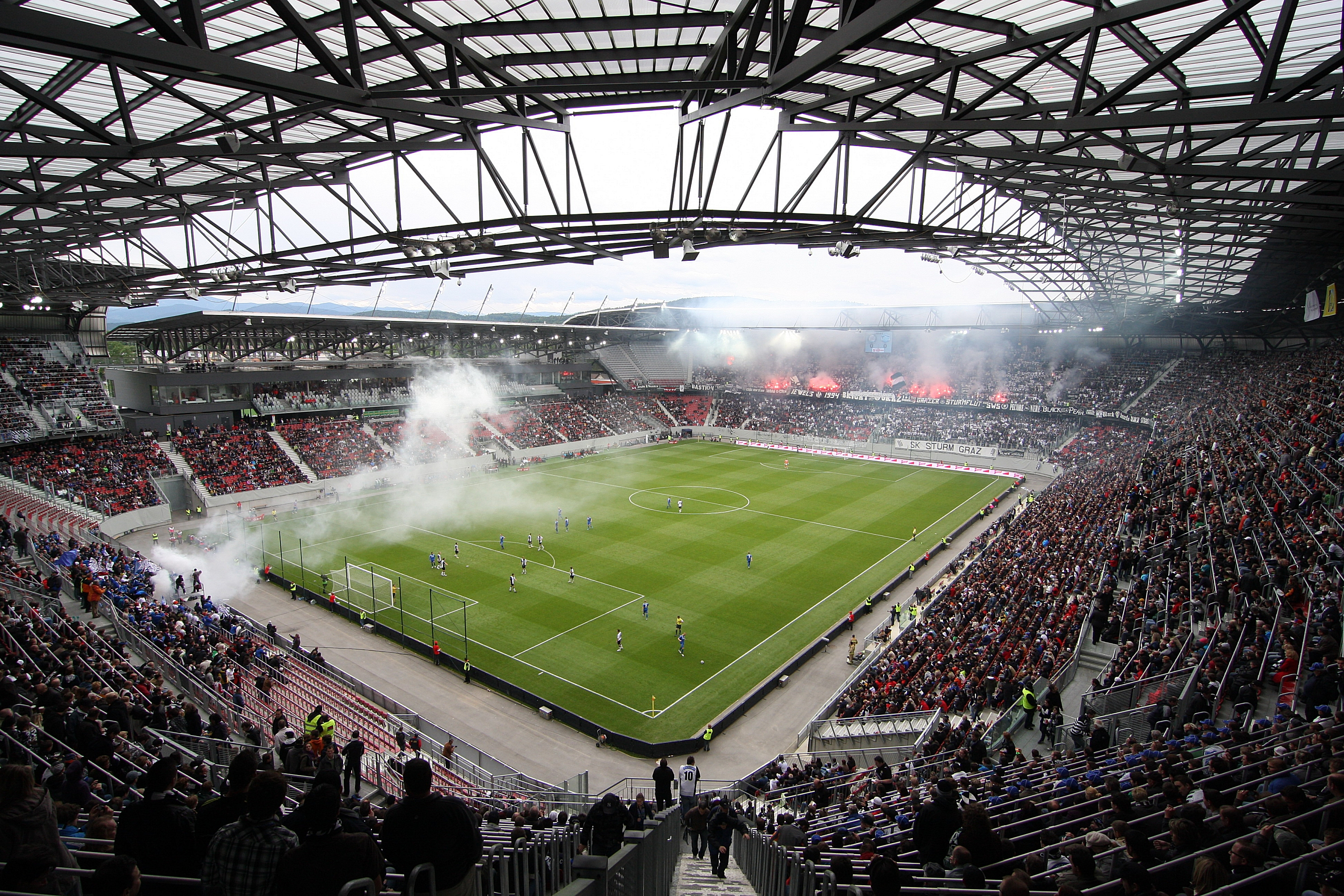 A view in the Wörtherseestadion in Klagenfurt (Austria) with 28.000 spectators during the final of the Austrian Cup 2009–10 SC Magna Wiener Neustadt vs. SK Sturm Graz 0:1 (0:0) at 2010-05-16.